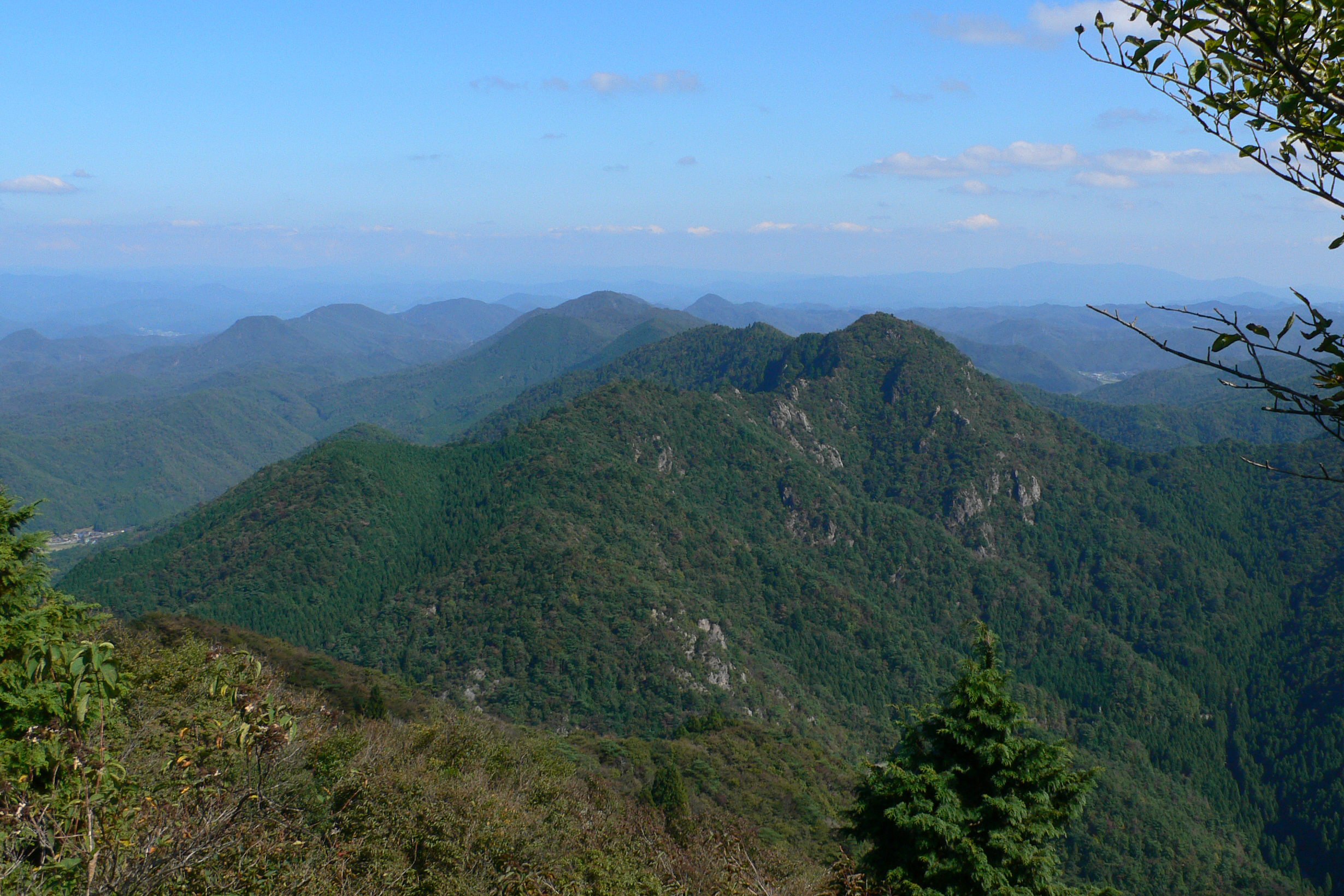 Koganegadake as seen from the west. Shot at Mitake in Tamba-Sasayama, Hyogo Prefecture, Japan.